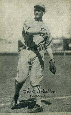 Major League Baseball player Charlie Robertson